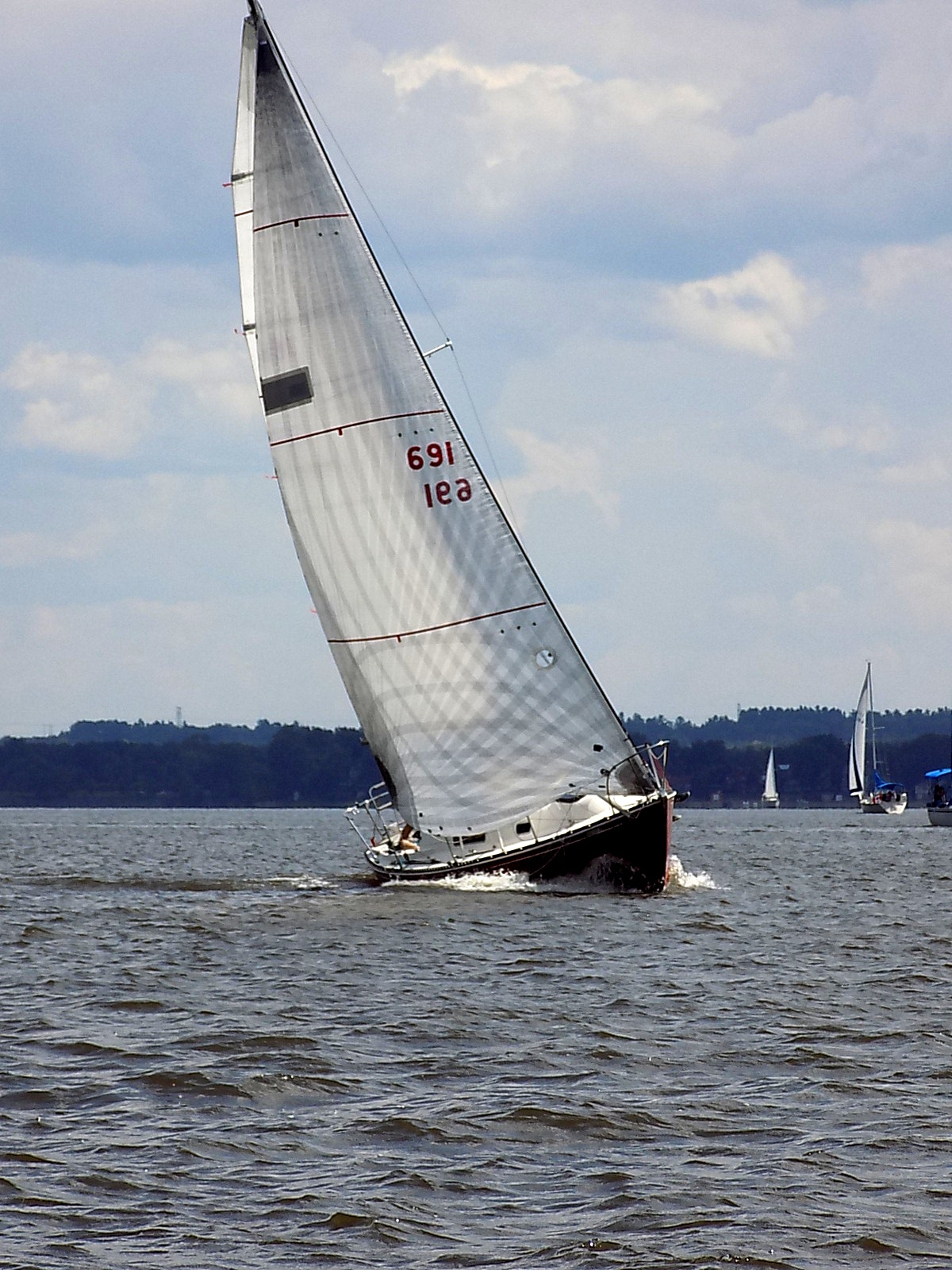 An O'Day 28 sailboat named Firefly.